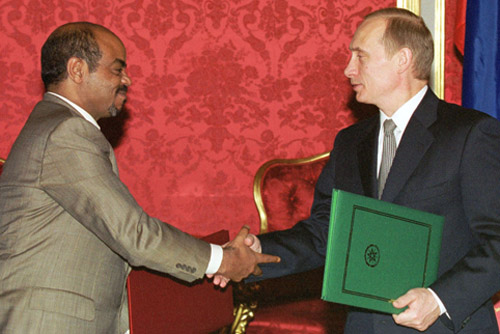 THE KREMLIN, MOSCOW. President Putin and Prime Minister of Ethiopia Meles Zenawi signing the Declaration on Principles of Friendly Relations and Partnership between Ethiopia and the Russian Federation.